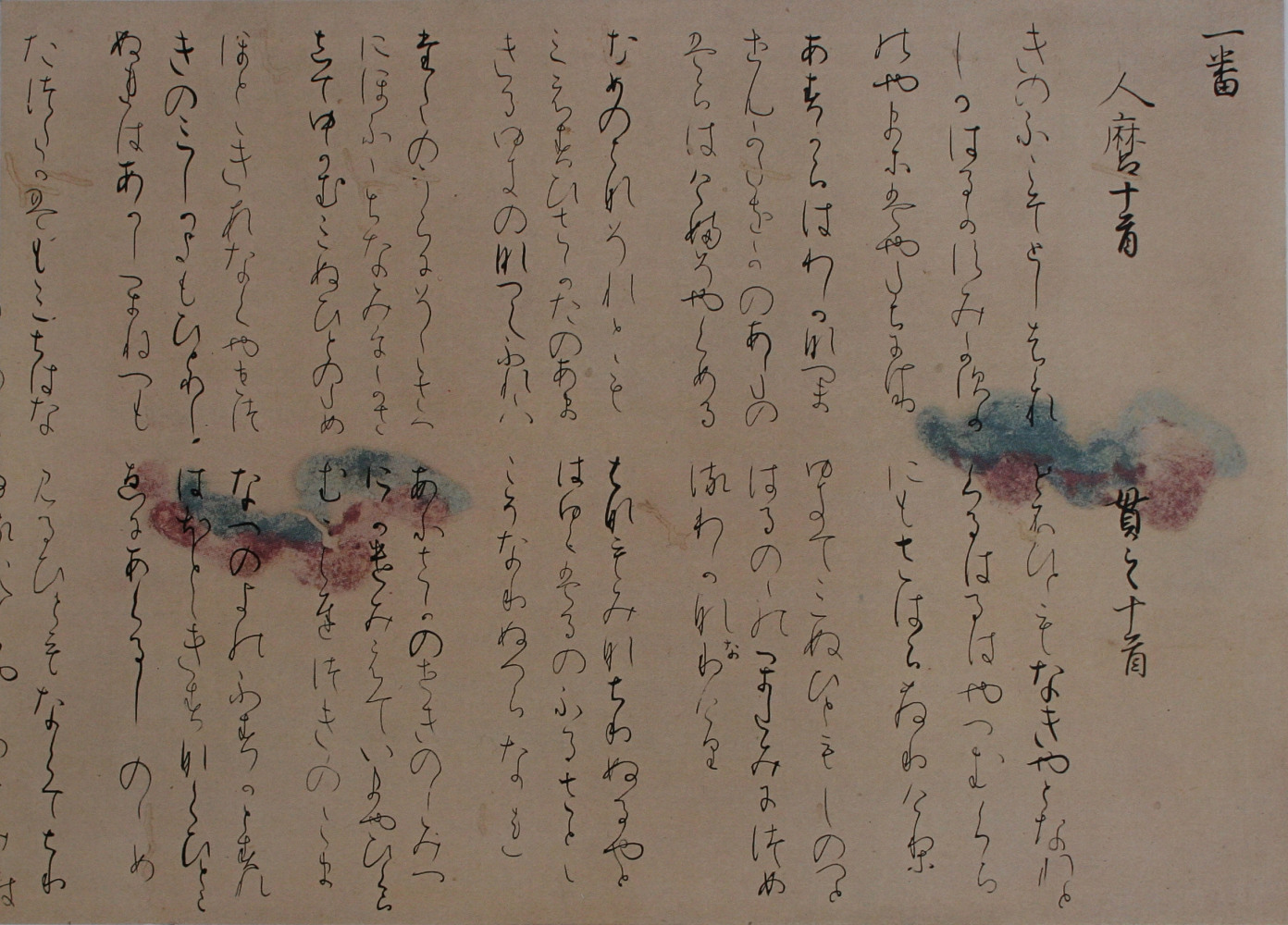 Vertical Poetry Contest of Great Poets (KESEN UTAAWASE), ink on ornamented paper, Heian Period, Japan, KUBOSO memorial Museum, Izumi, Osaka, Japan